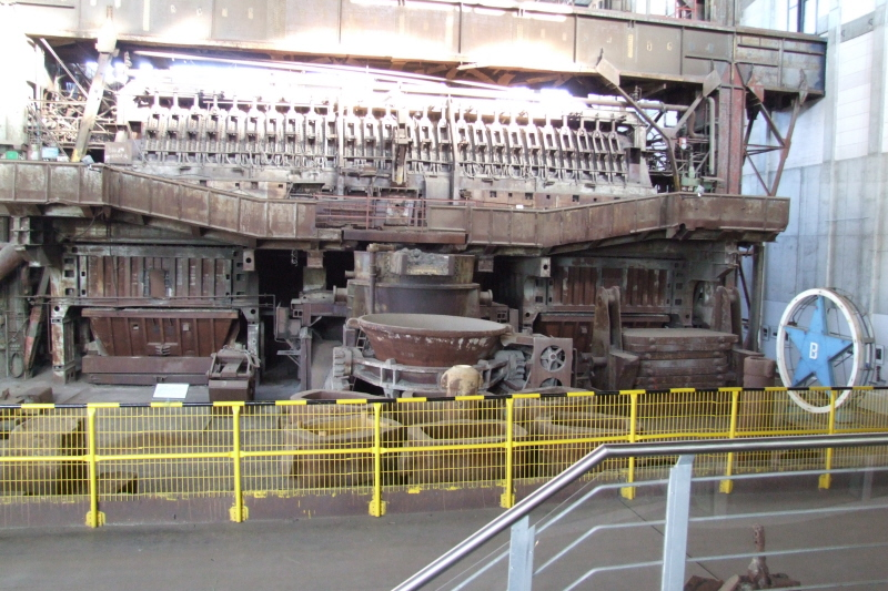 Equipment in Industriemuseum Brandenburg